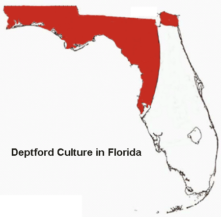 Self created map of Florida's Deptford Culture